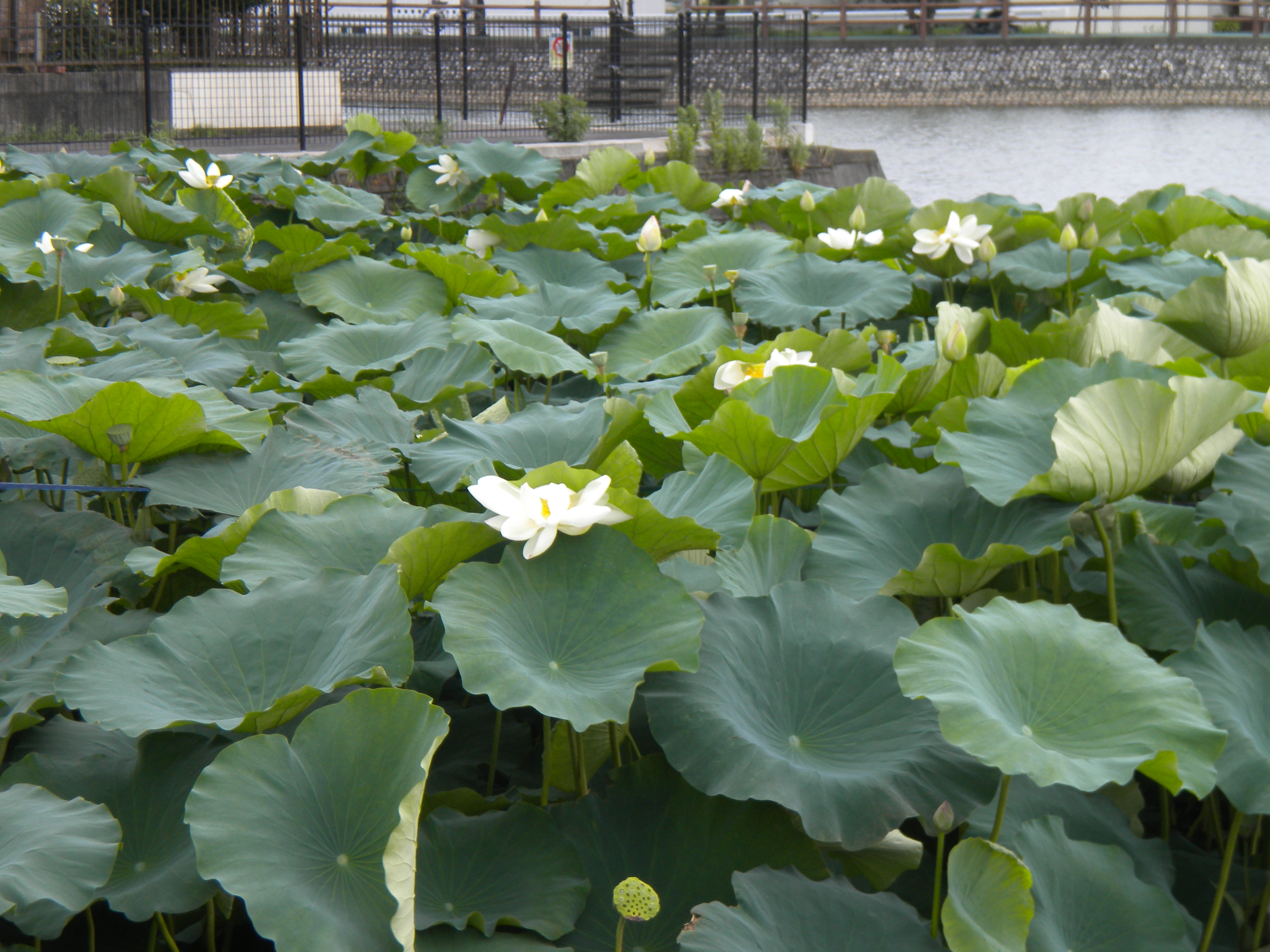 Hanaike Pond in Kariya city